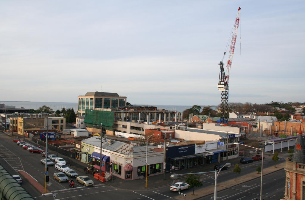 Westfield Bay City construction, Geelong